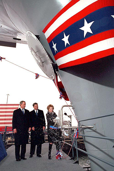 Former First lady Nancy Reagan christens the aircraft carrier USS Ronald Reagan as President George W. Bush, left, and Newport News Shipbuilding CEO William Frick look on Sunday afternoon, March 4, 2001, in Newport News, Virginia. [1]